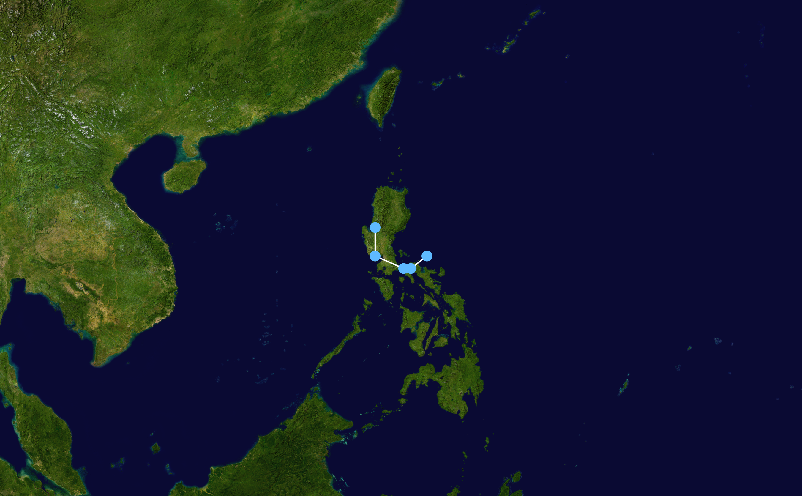 Track map of Tropical Depression Winnie of the 2004 Pacific typhoon season. The points show the location of the storm at 6-hour intervals. The colour represents the storm's maximum sustained wind speeds as classified in the Saffir–Simpson scale (see below), and the shape of the data points represent the nature of the storm, according to the legend below. Saffir–Simpson scale Tropical depression≤38 mph≤62 km/h Category 3111–129 mph178–208 km/h Tropical storm39–73 mph63–118 km/h Category 4130–156 mph209–251 km/h Category 174–95 mph119–153 km/h Category 5≥157 mph≥252 km/h Category 296–110 mph154–177 km/h Unknown Storm type Tropical cyclone Subtropical cyclone Extratropical cyclone / Remnant low / Tropical disturbance / Monsoon depression